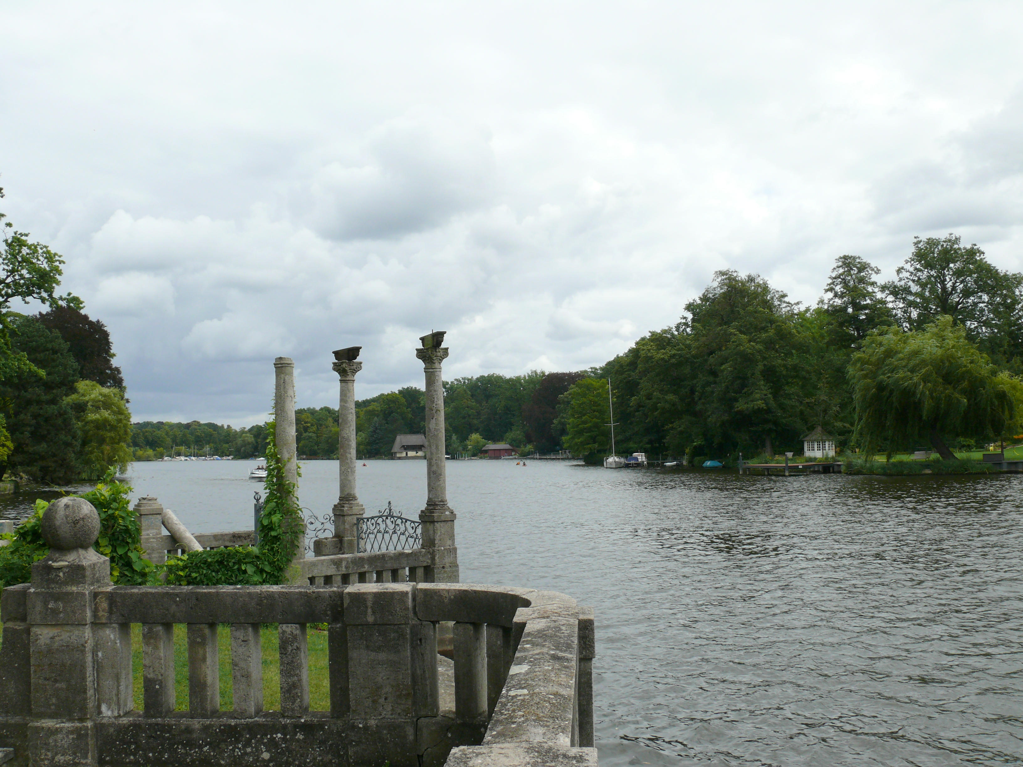 Berlin-Wannsee Kleiner Wannsee